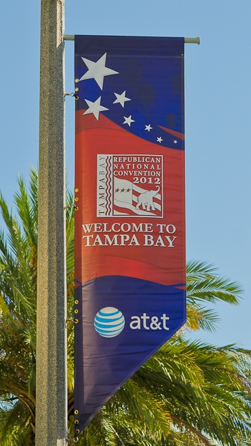 Banner flying in Tampa ahead of the 2012 Republican National Convention.